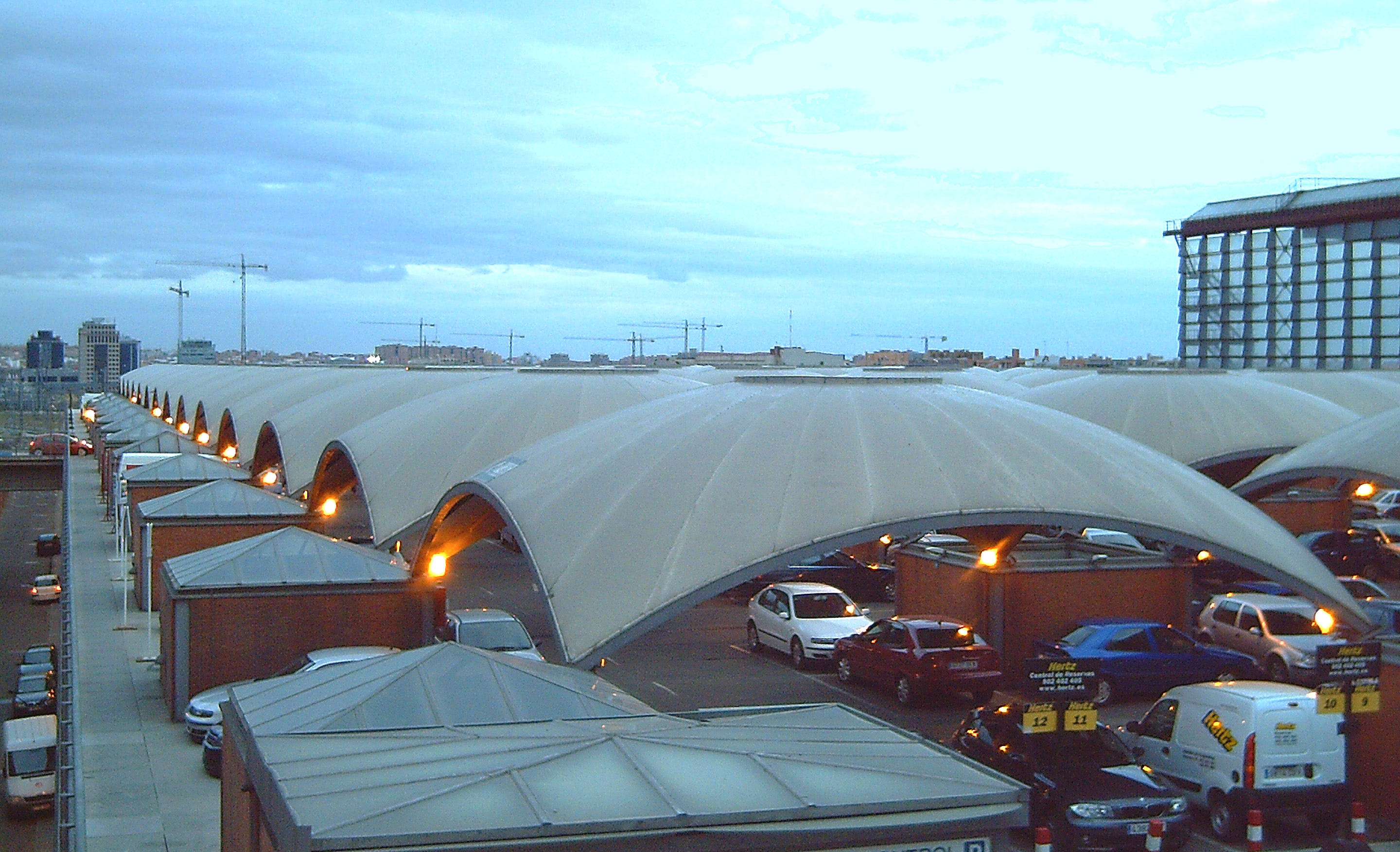 Car park of the Atocha railway station in Madrid (Spain). Part of the extension projected by architect Rafael Moneo (born 1937) in 1985 and built between 1985 and 1992.